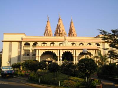 picture of EASS Hindu Mandir in Nairobi, Hinduism in Kenya